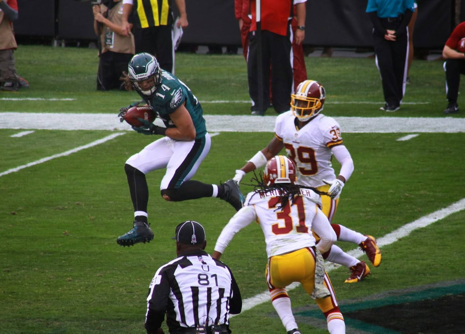 Riley Cooper catches a pass vs. the Redskins during the Eagles 24-16 victory on November 17, 2013.